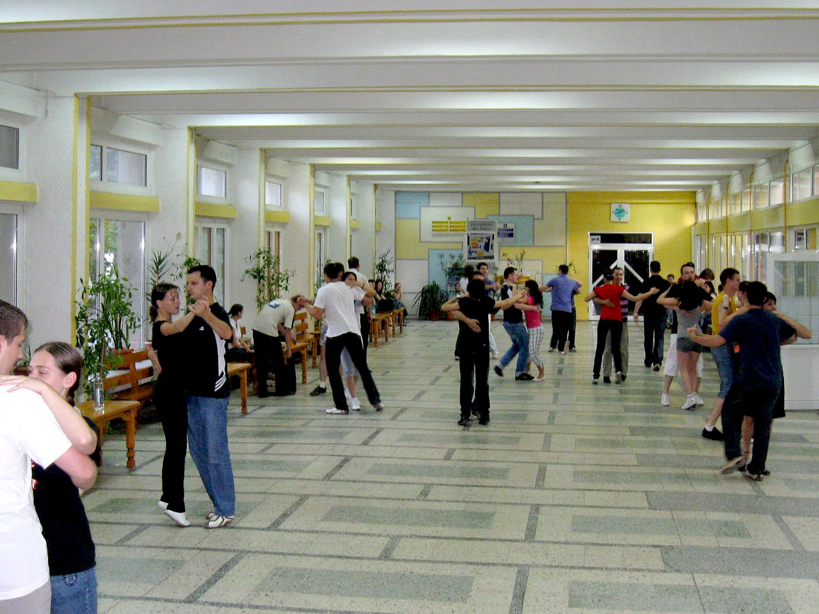 Ballroom dance course at the Faculty of Mechanical Engineering from Timisoara.